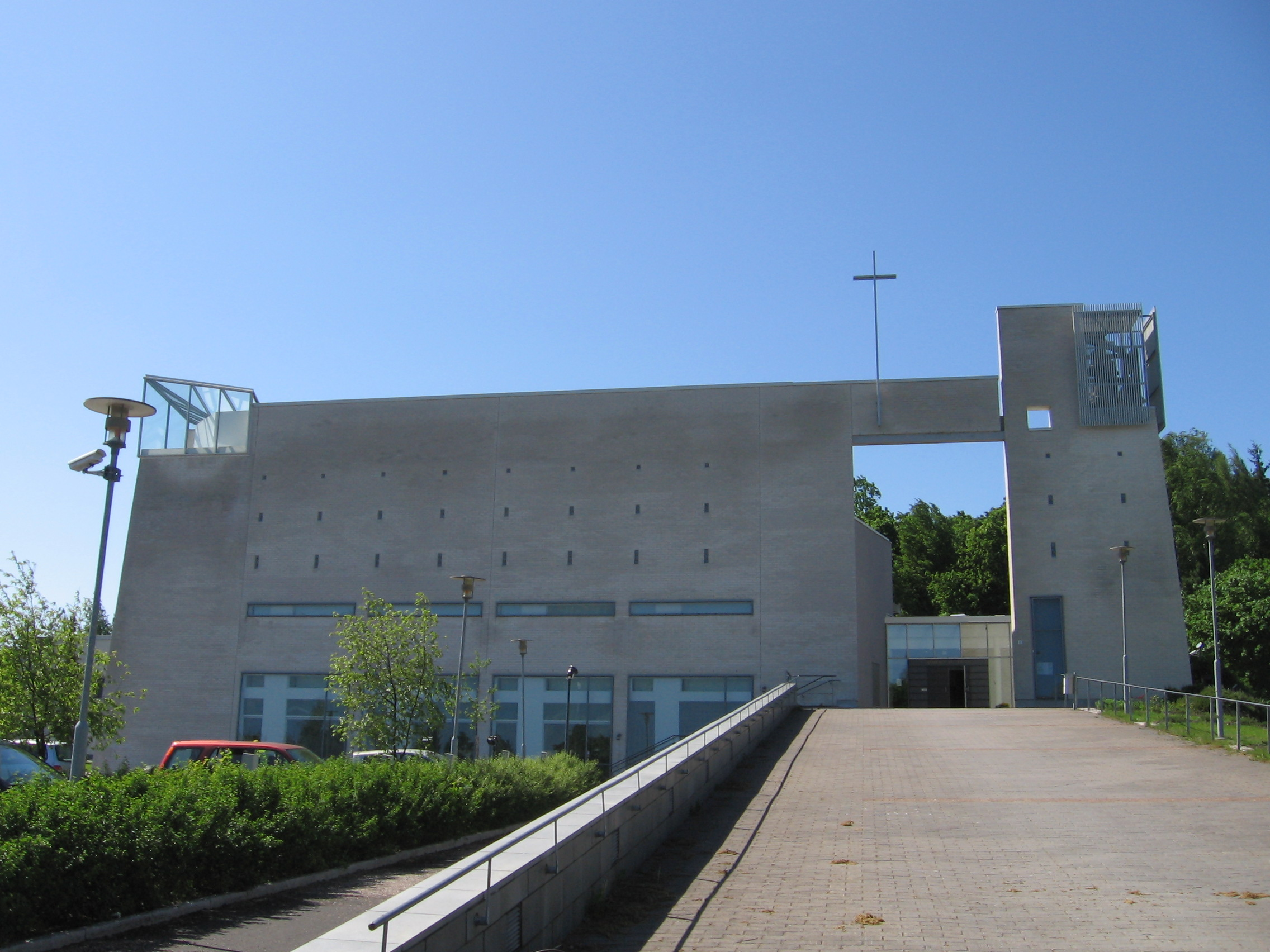 Hämeenkylä Church in Vantaa, Finland, designed by Olli Pekka Jokela and completed in 1992